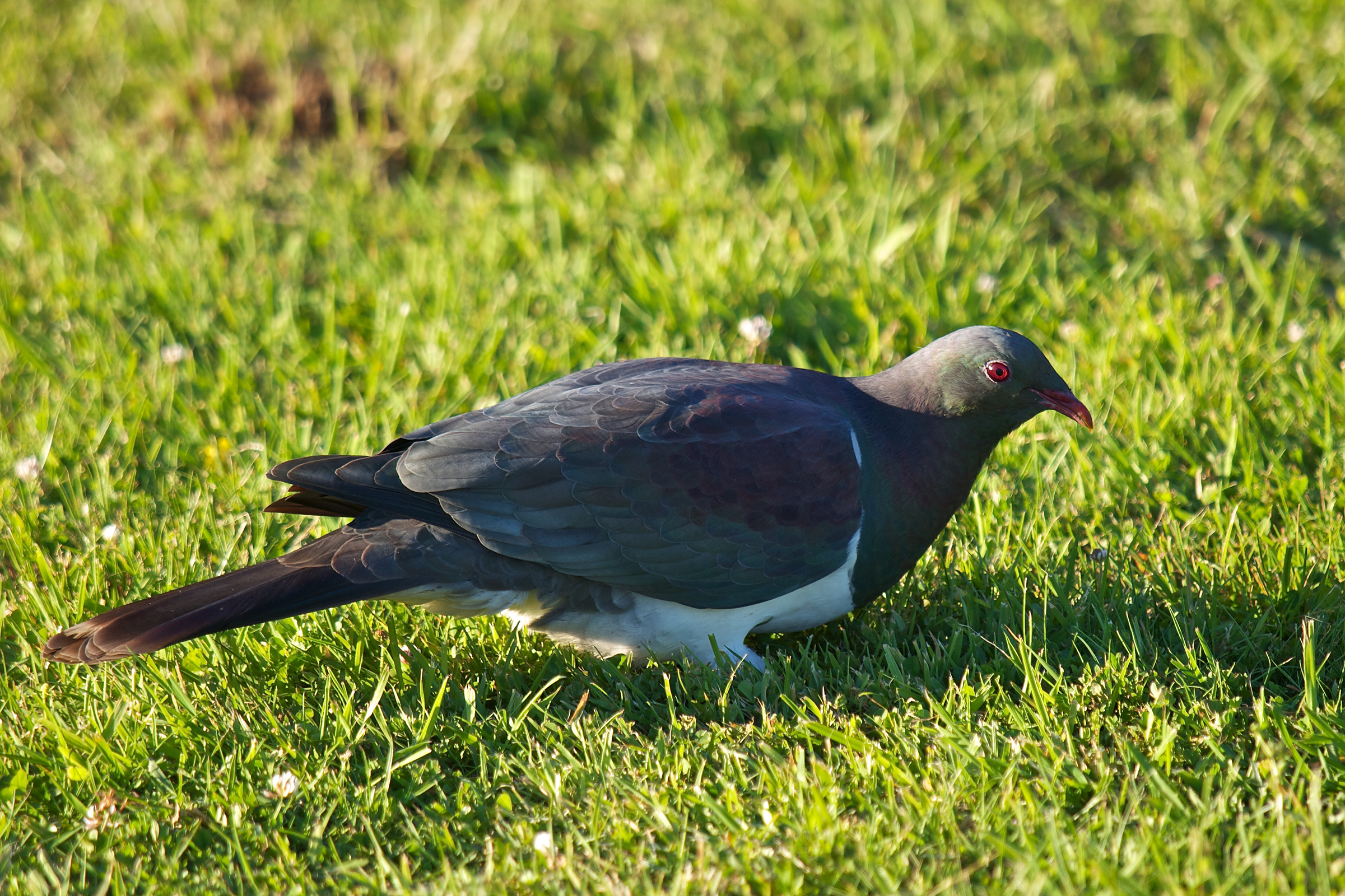 New Zealand pigeon (Hemiphaga novaeseelandiae), Lake Matheson, New Zealand